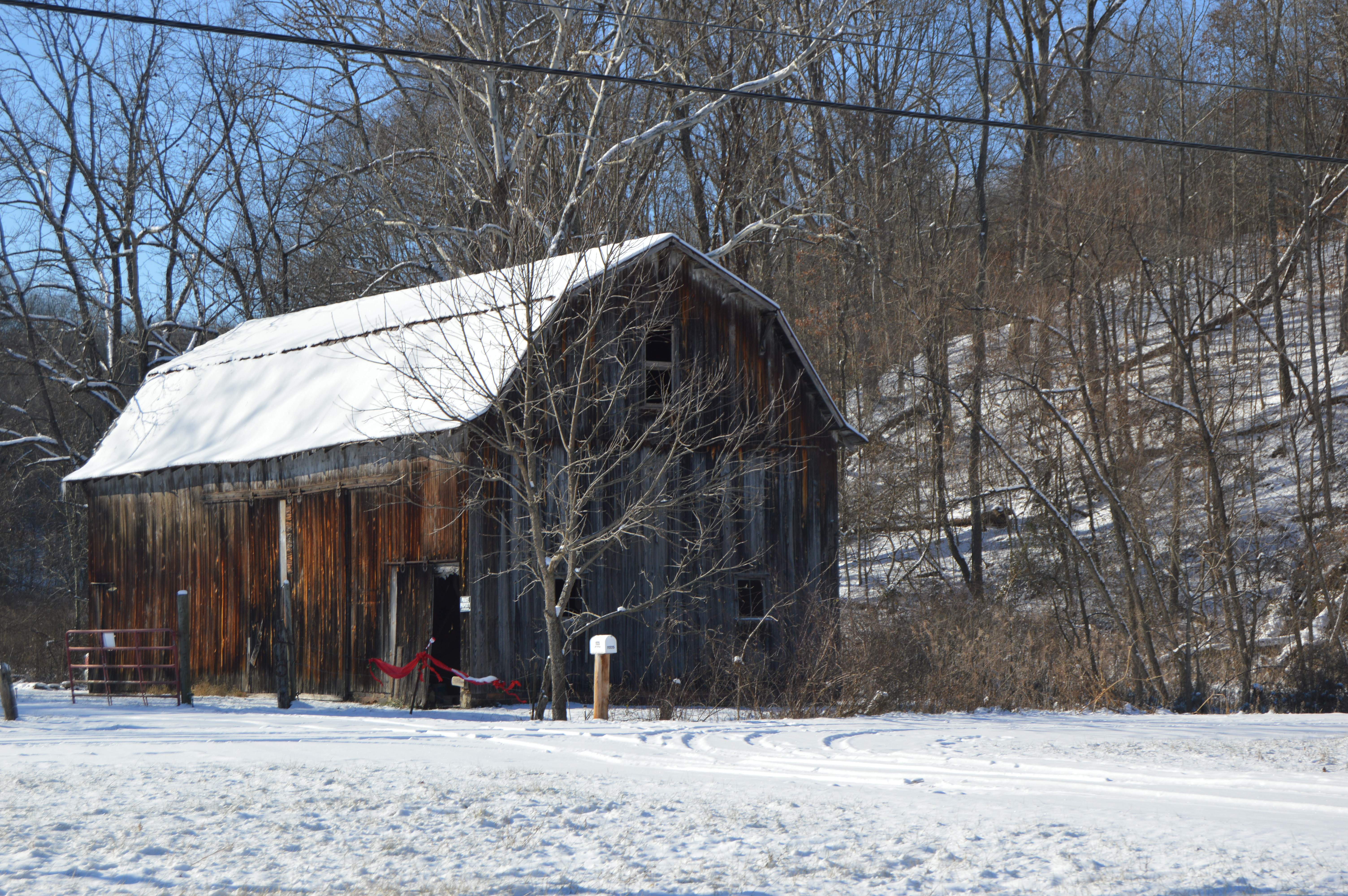 A barn at the base of a snow-covered hill, seen from State Route 691 east of Carbondale, in Waterloo Township, Athens County, Ohio, United States.